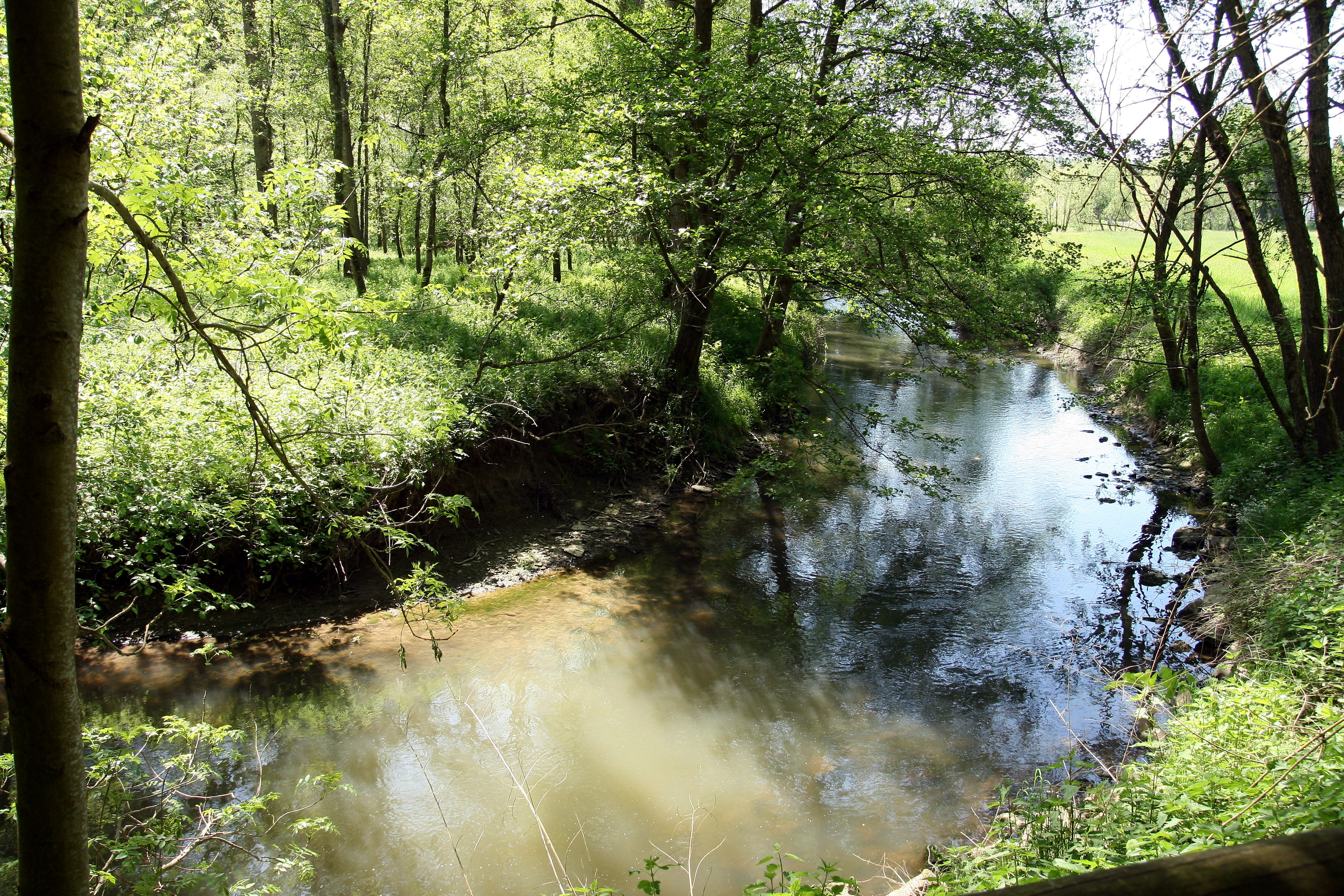 Gelbach creek between Montabaur and Montabaur-Wirzenborn, Westerwaldkreis, Germany